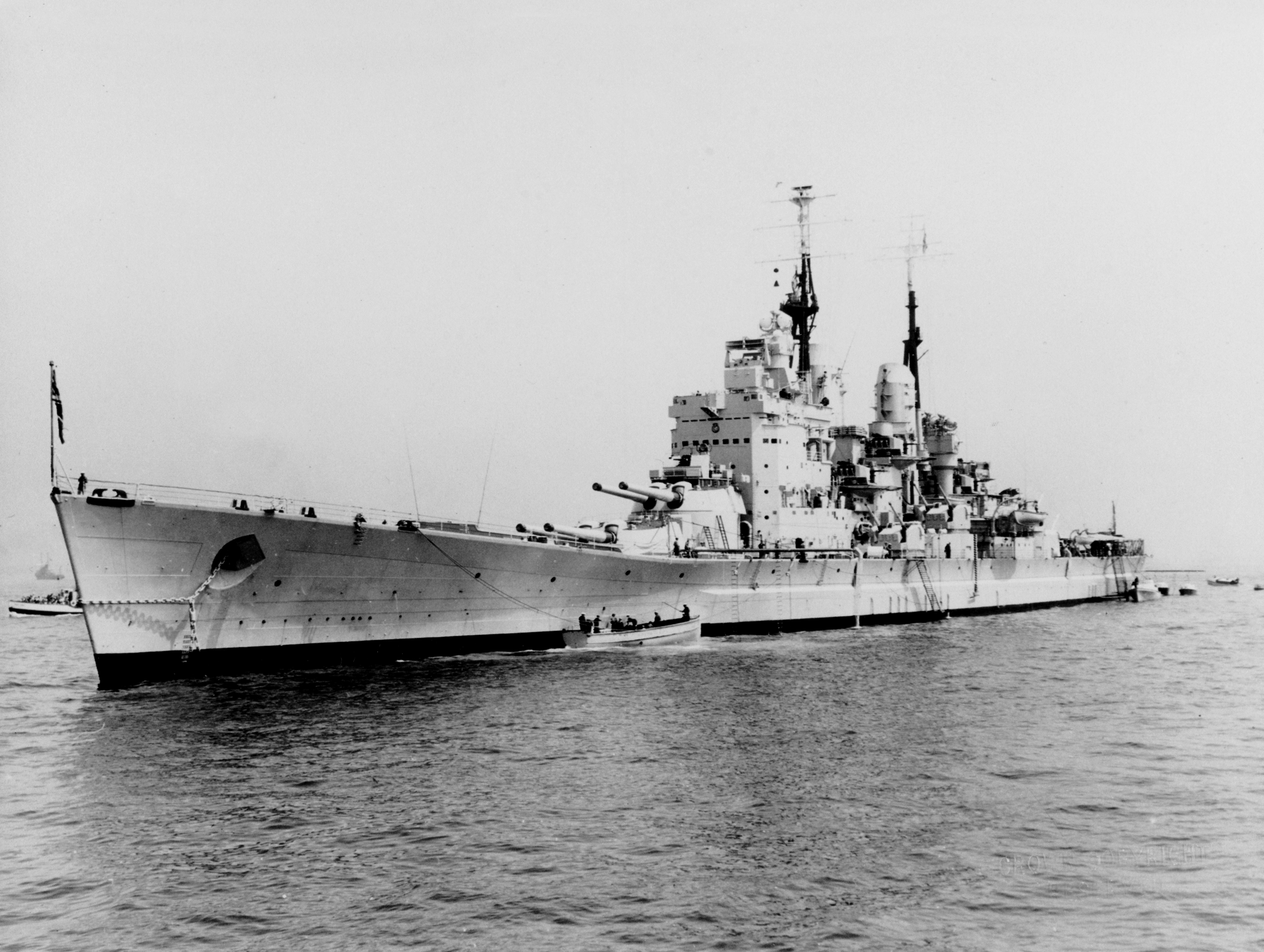 The Royal Navy battleship HMS Vanguard (23) at anchor in port, with boat booms out and a motor launch alongside.